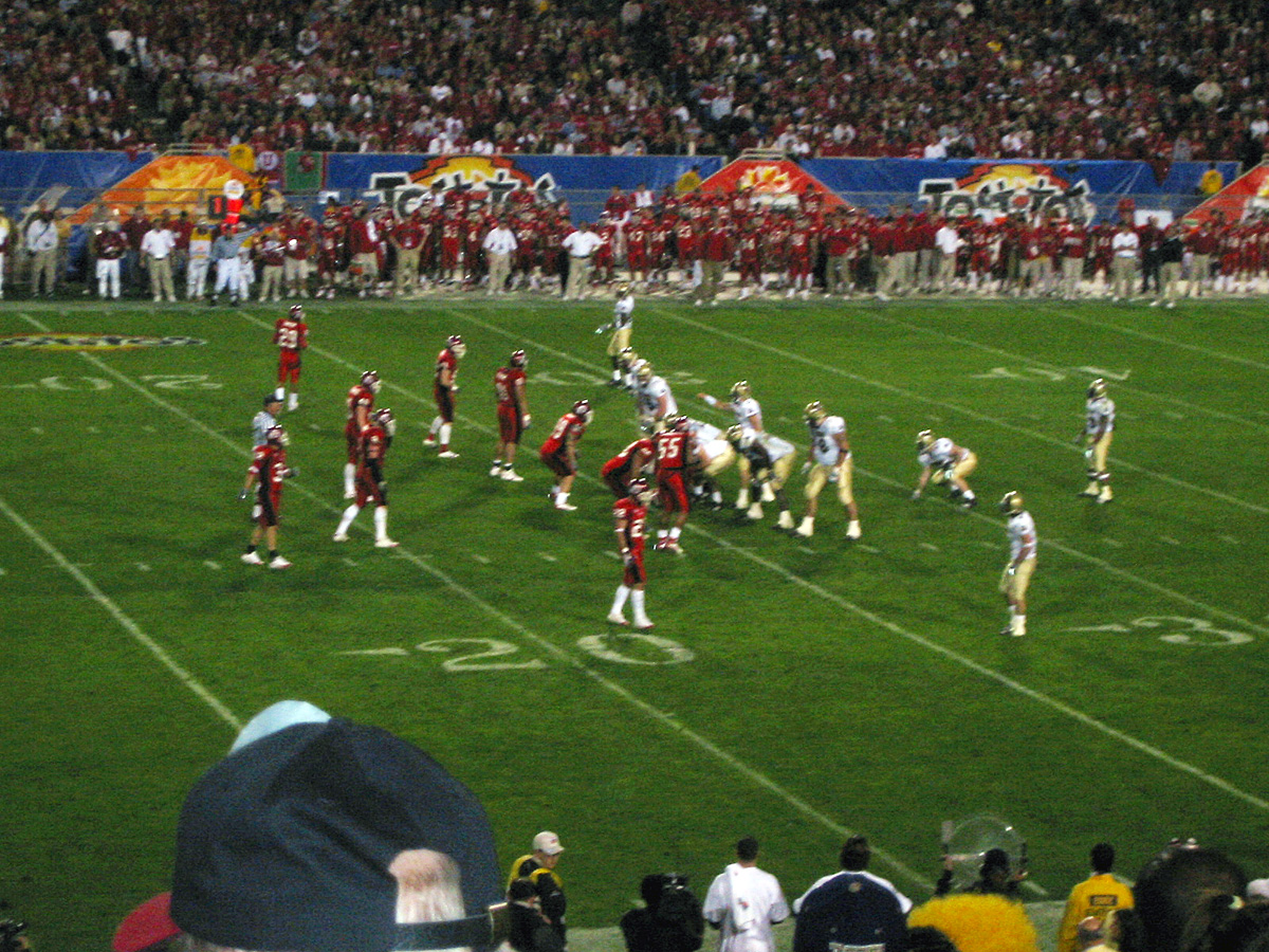 en:2005 Fiesta Bowl:2005 Fiesta Bowl between the Pittsburgh Panthers and Utah Utes